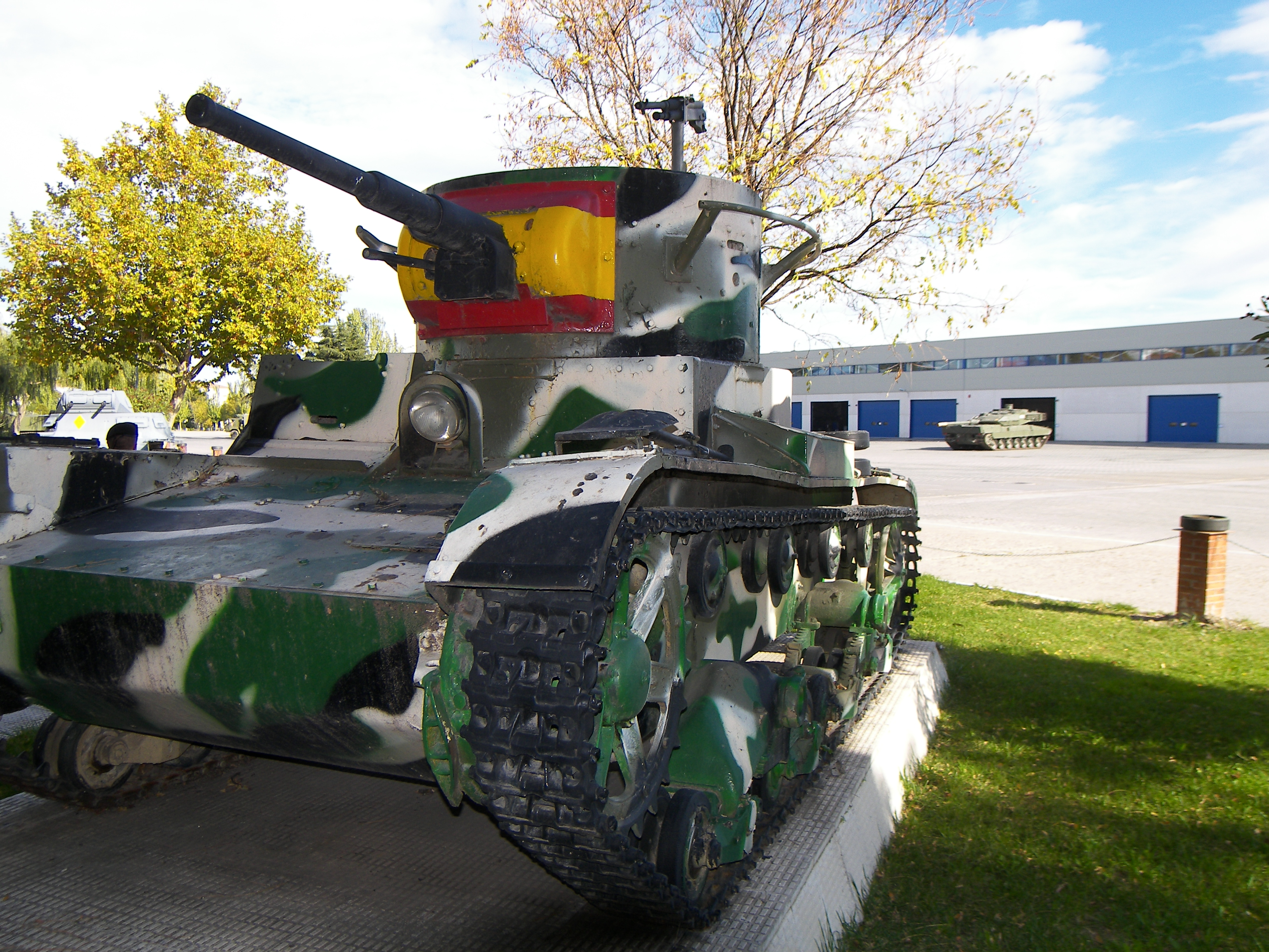 Front right side of the T-26